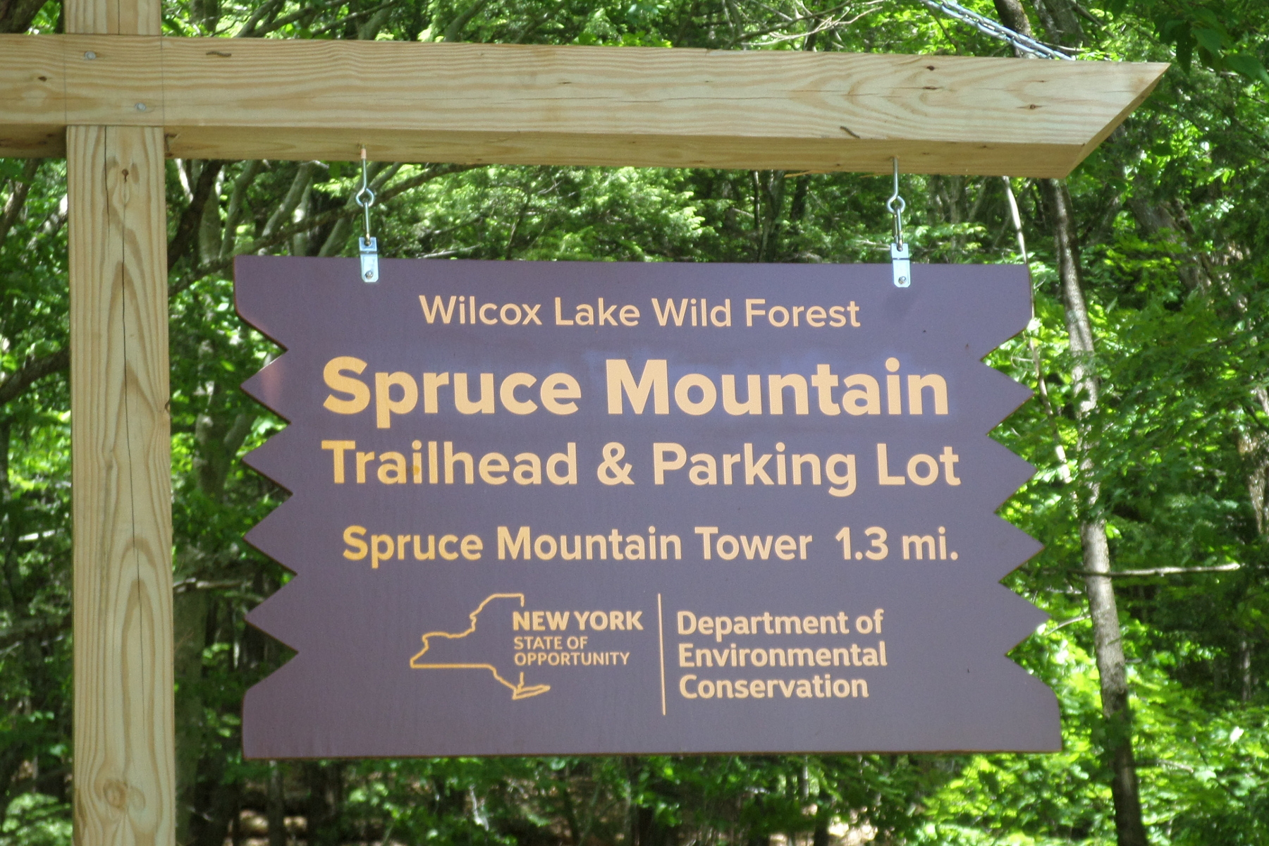 New York State DEC sign marking the start of the trail to the summit of Spruce Mountain